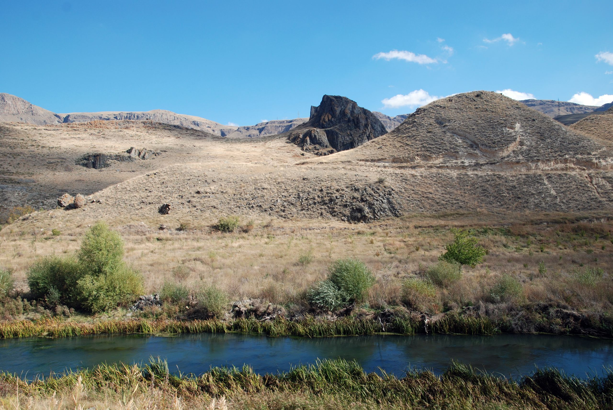 Vorotnaberd, castle near Vorotan, Syunik